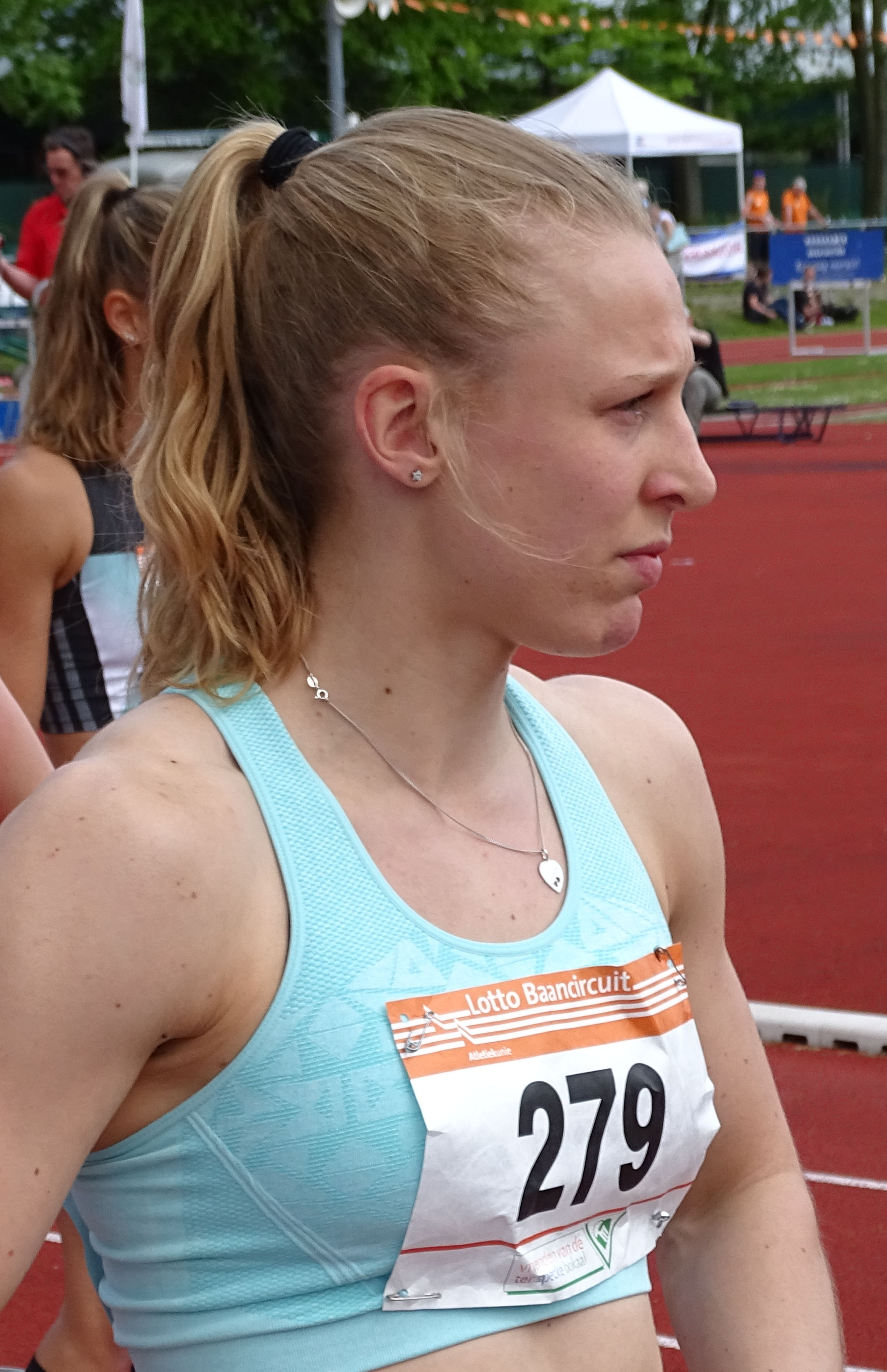 Tessa van Schagen at the Ter Specke Bokaal 2016, Lisse, Netherlands